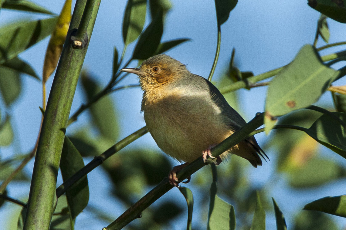 Red-faced Crombec - Naivasha Kenya 06_0870